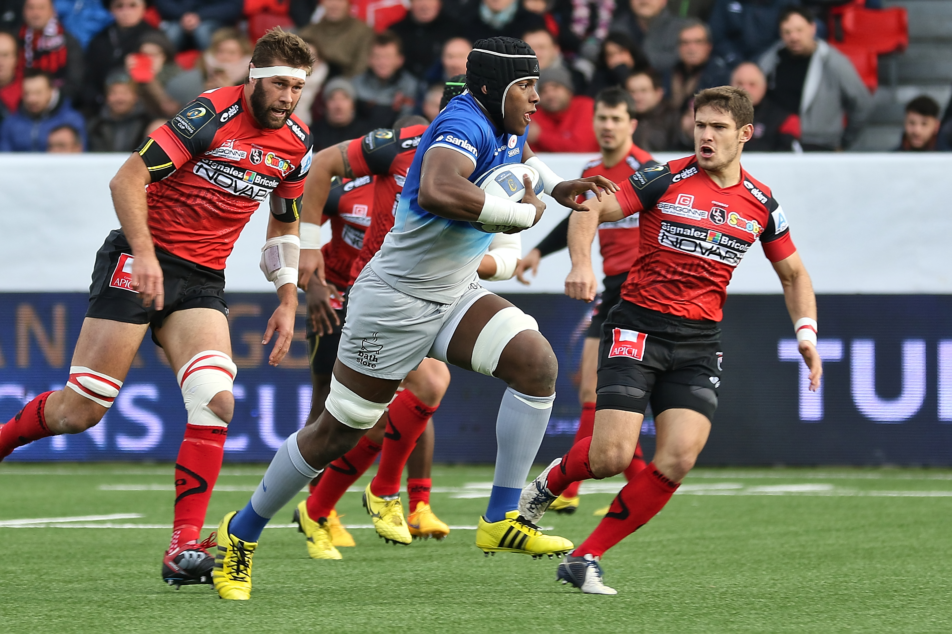 USO - Saracens - 20151213 - Maro Itoje attacking